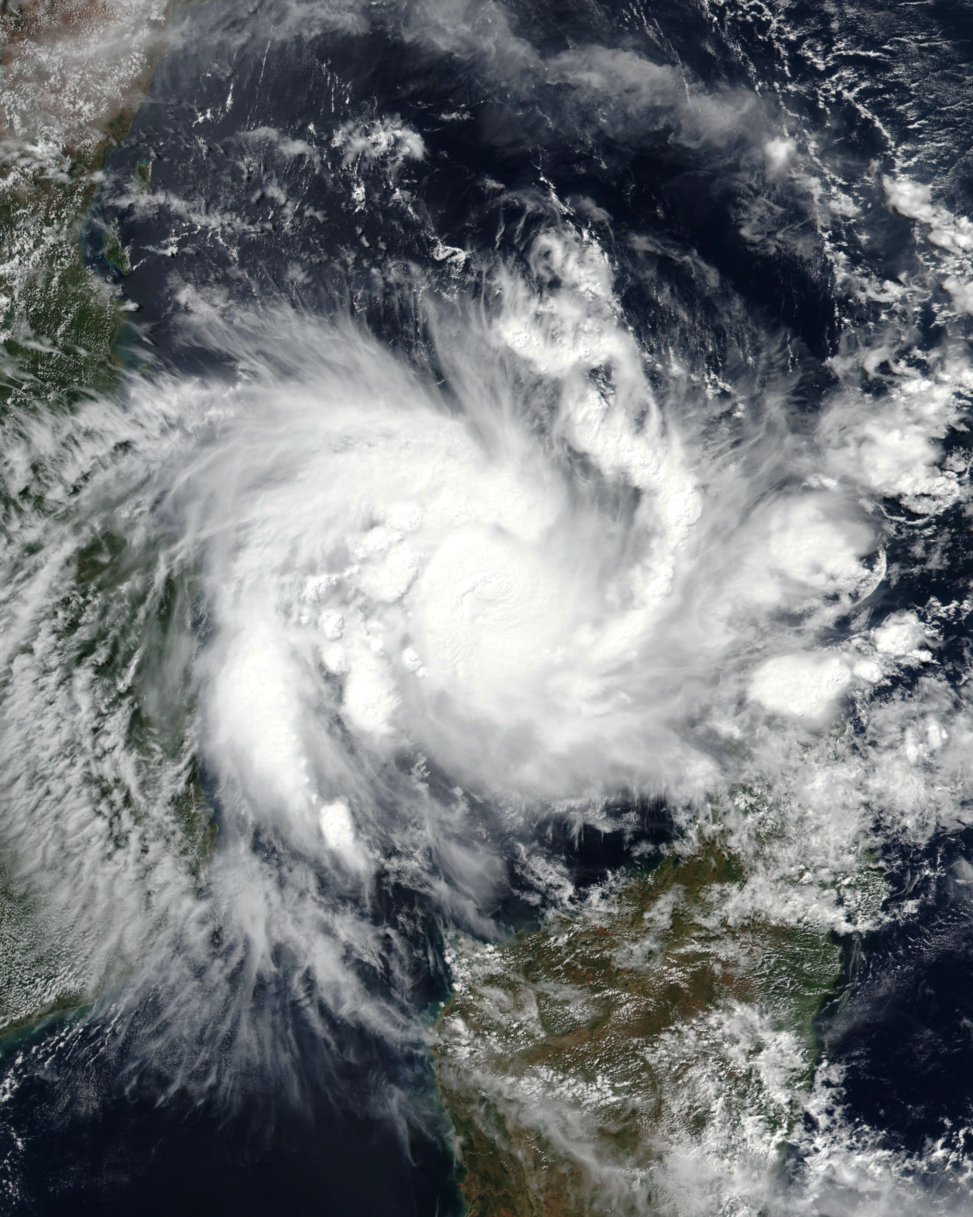 Tropical Cyclone Kenneth on April 24, 2019